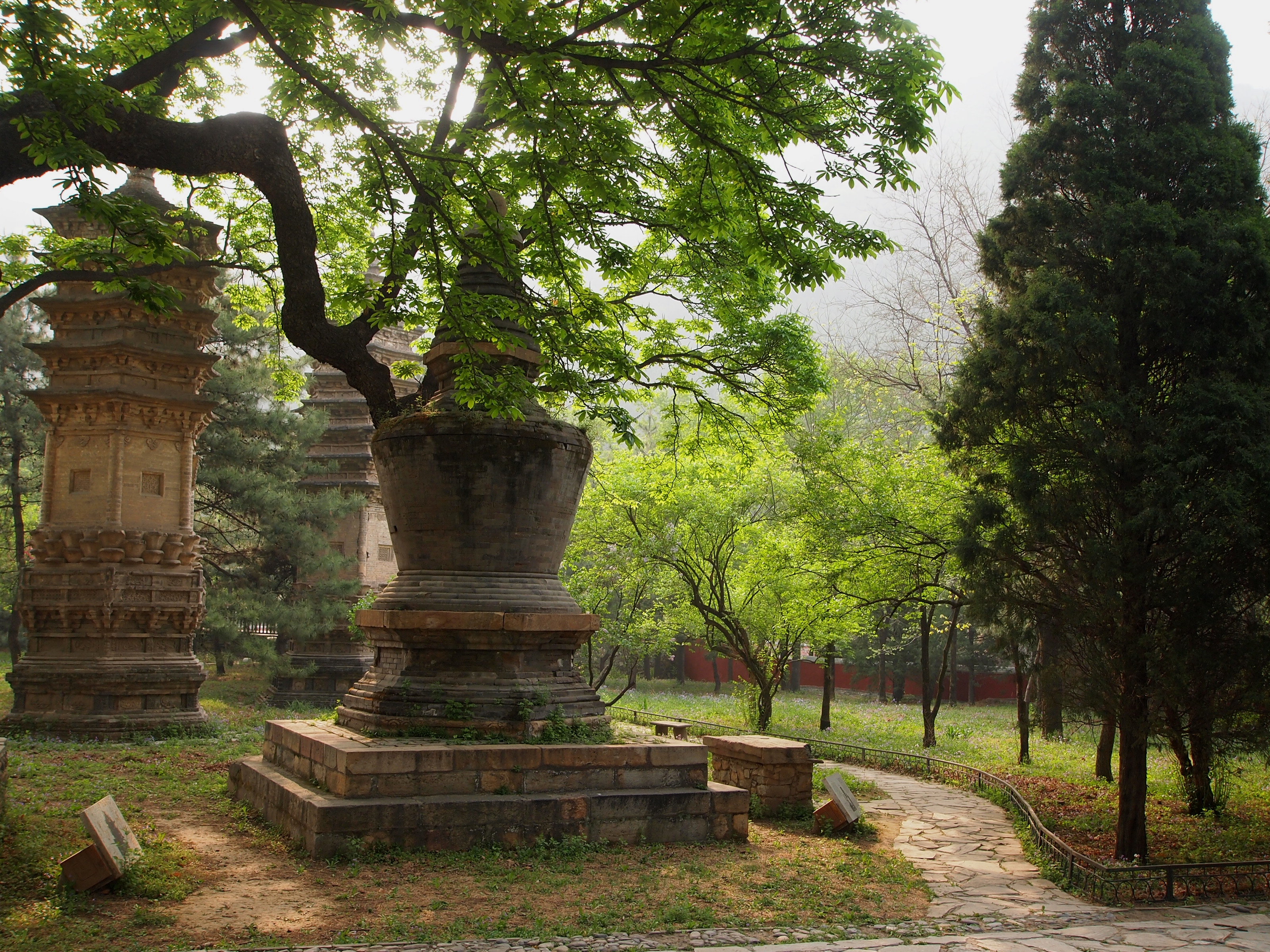 十方普同塔(僧人合葬塔) - Pagoda for Ordinary Monks - 2012.04